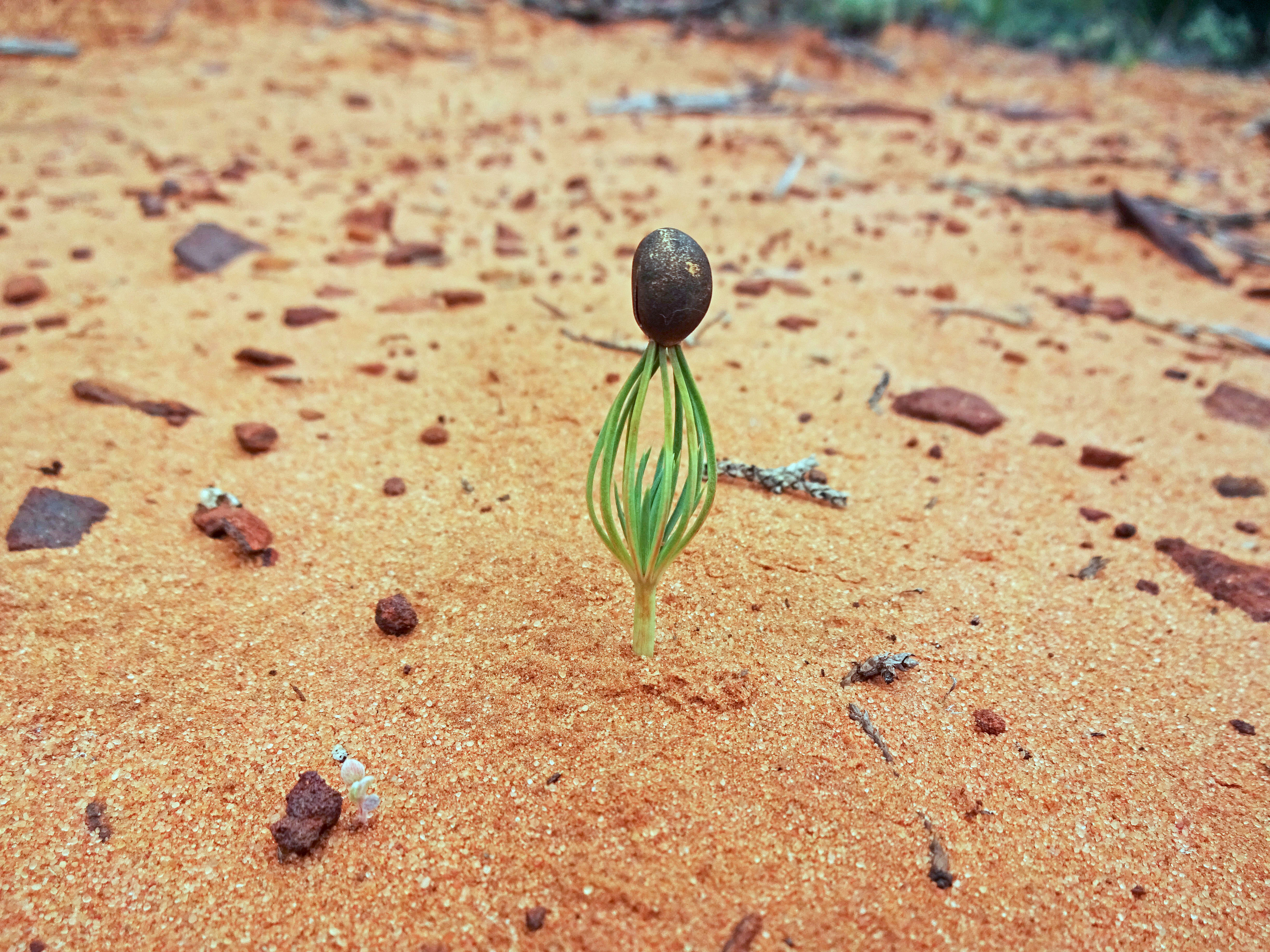 Twoneedle pinyon (Pinus edulis), Pine family (Pinaceae). Along State Road 43 on the way to the Coral Pink Sand Dunes State Park, Utah.